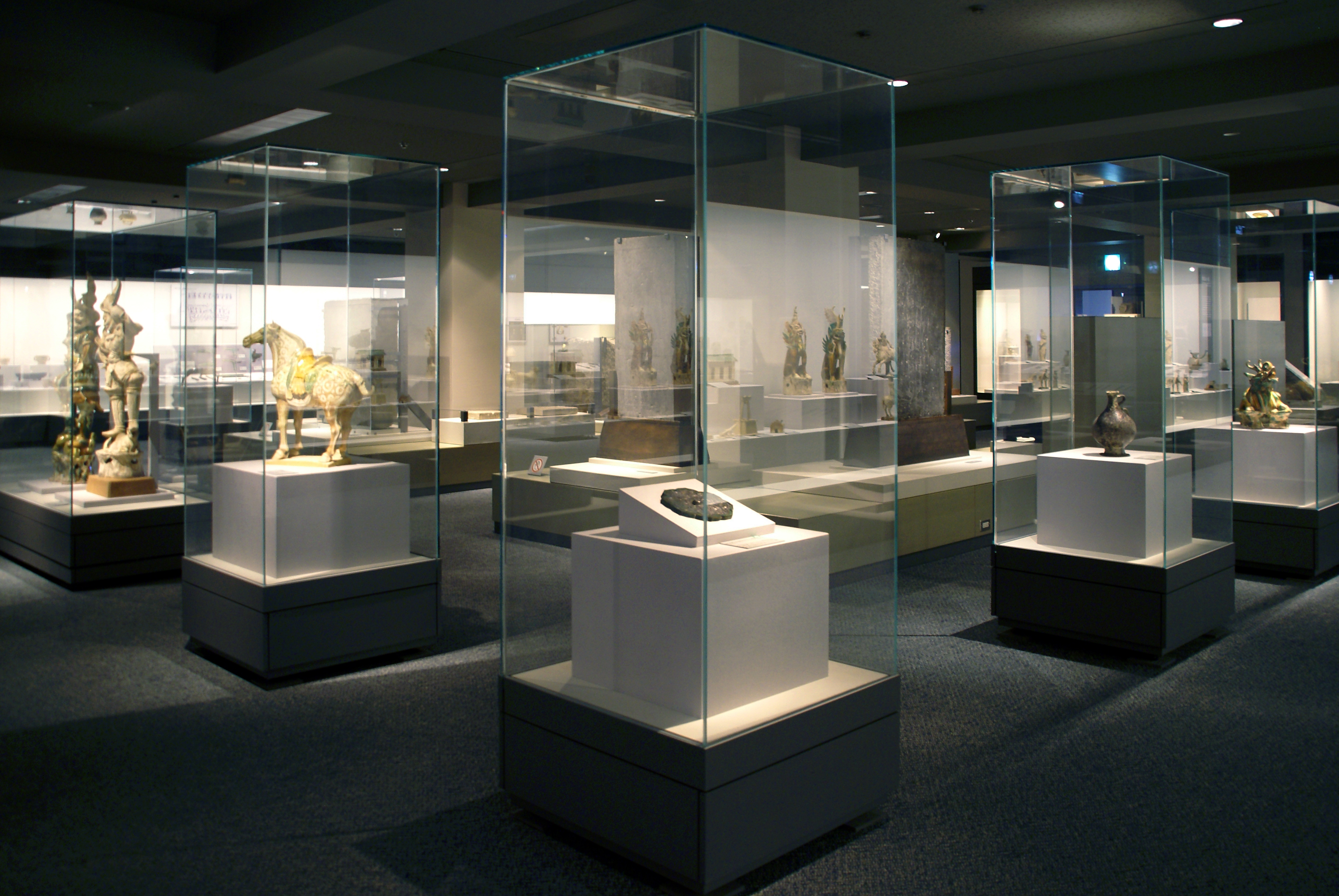 TTenri University Sankokan Museum in Tenri, Nara prefecture, Japan